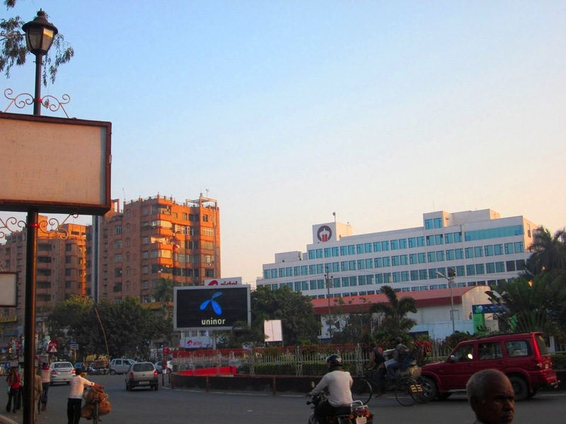 patna